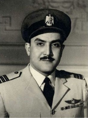 Official portrait of RCC member Hassan Ibrahim